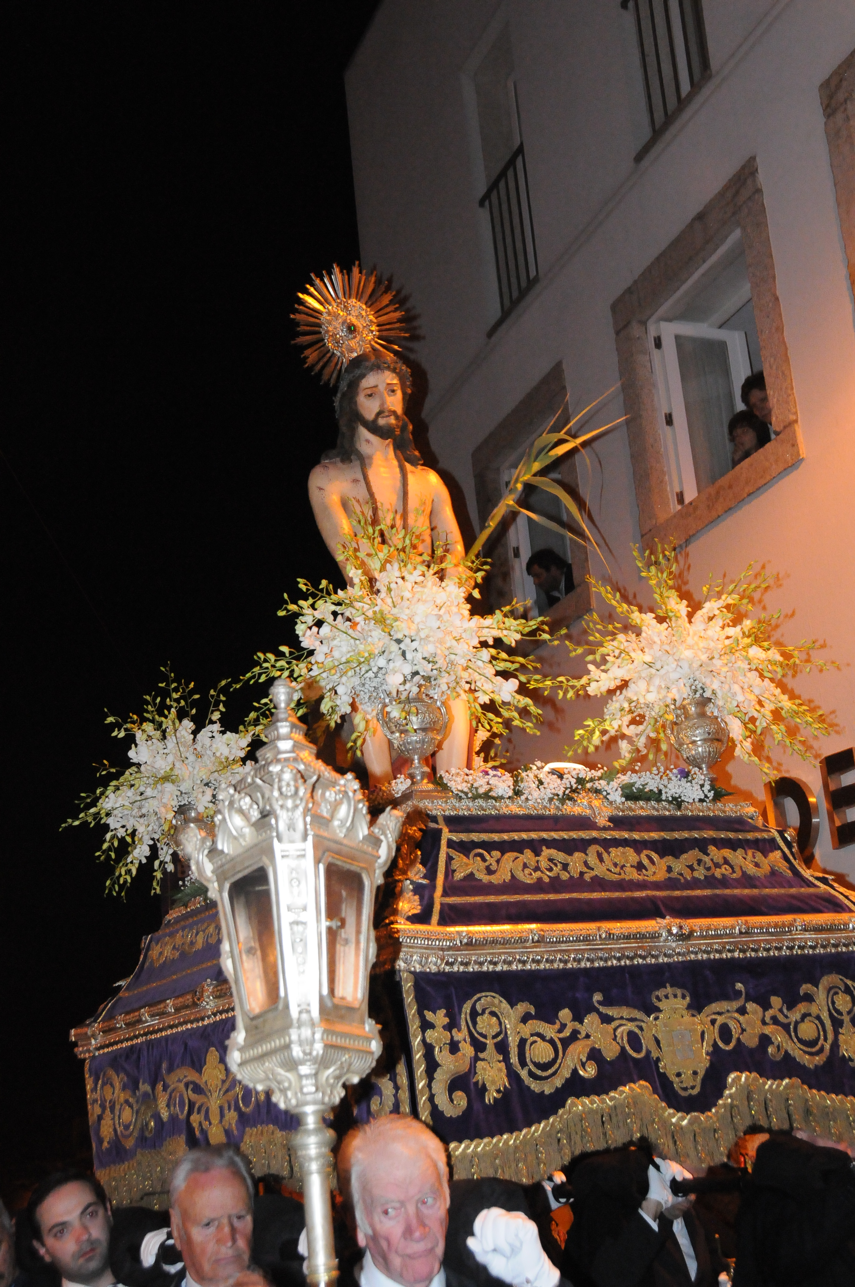 Ecce Homo Procession 2016, Braga, Portugal.